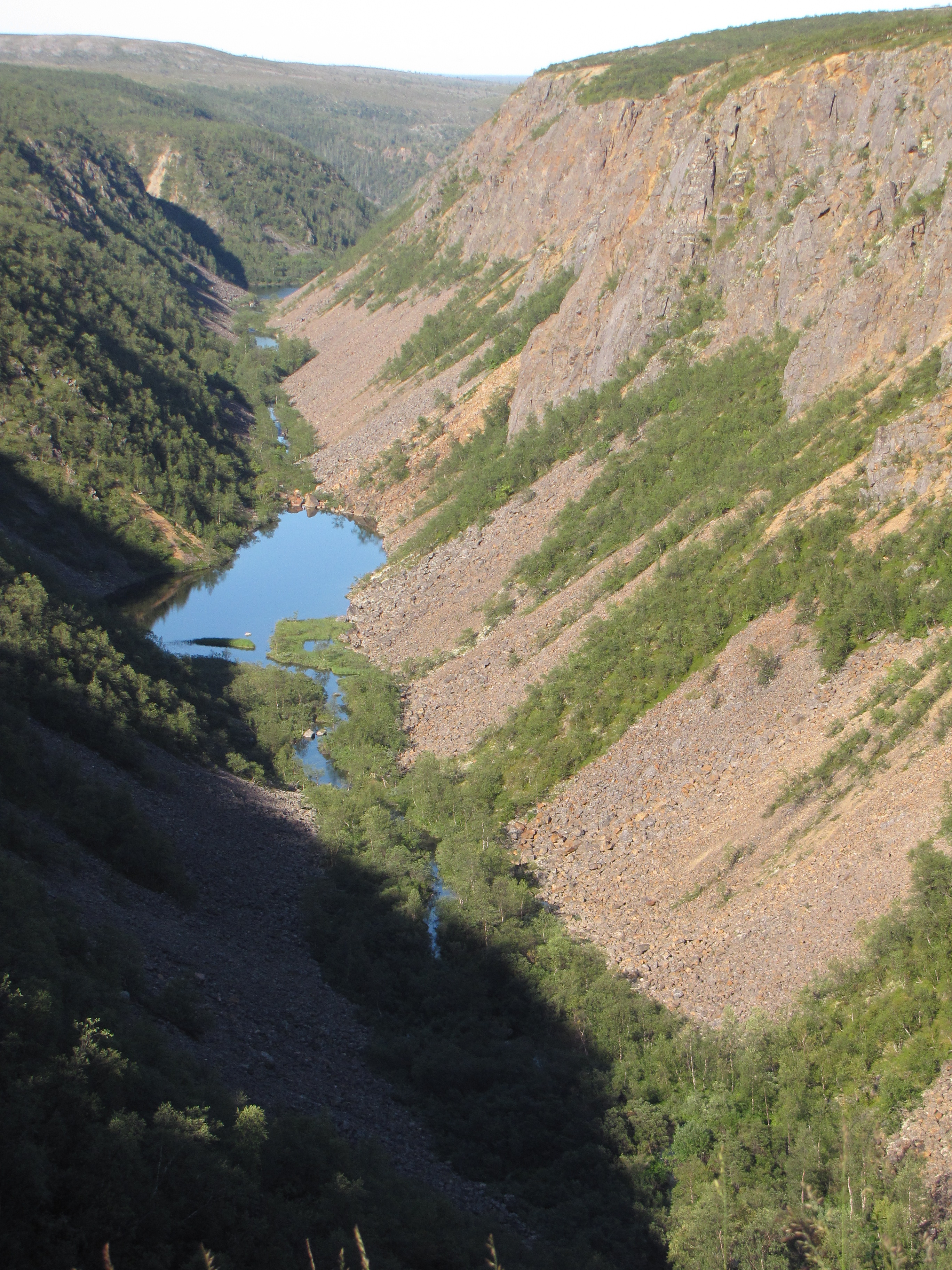 The beggining of Kevo canyon, Kevo Strict Nature Reserve, Finland